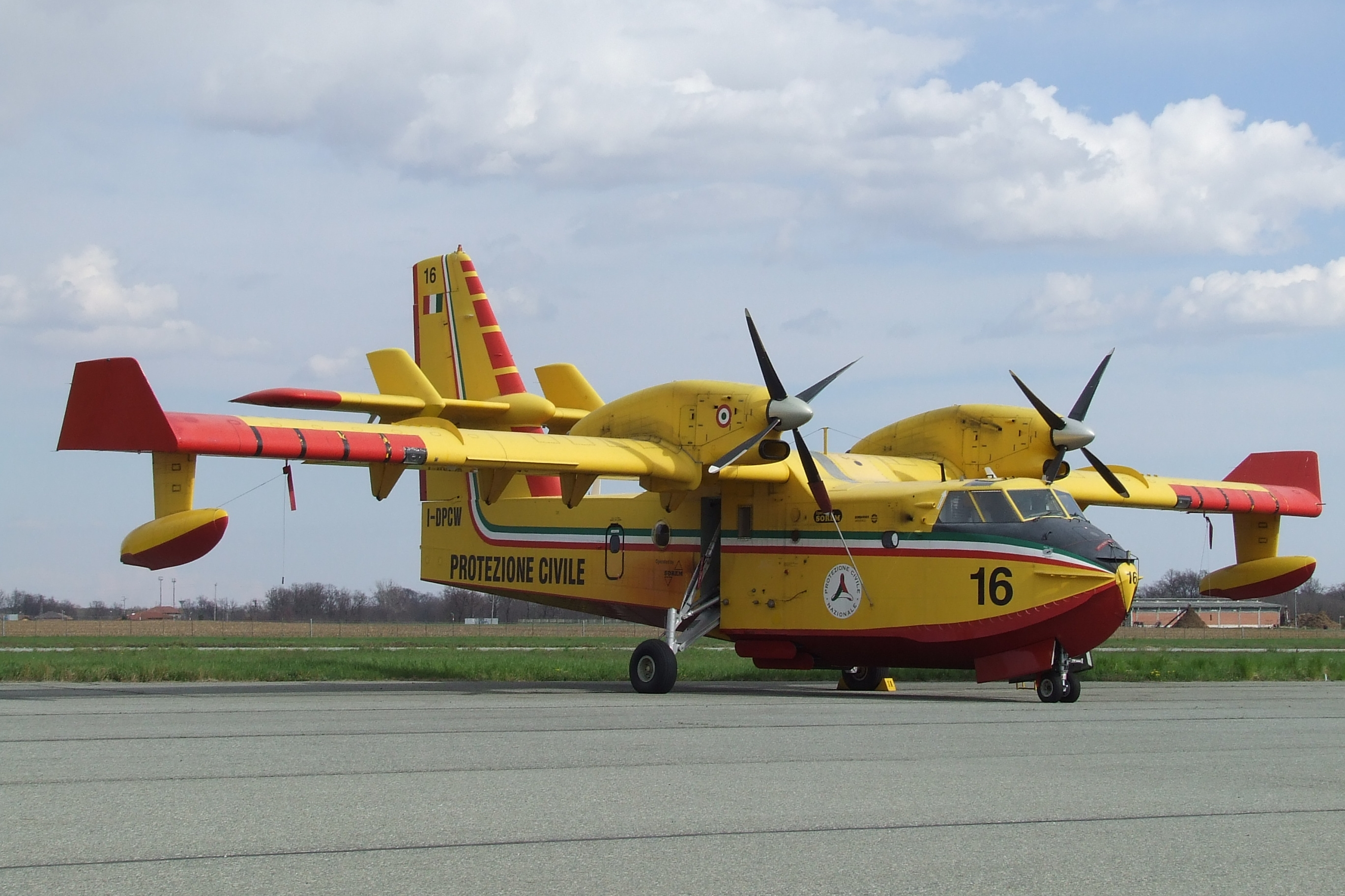 Canadair I-DPCW -- 16 - Italian "Protezione Civile"